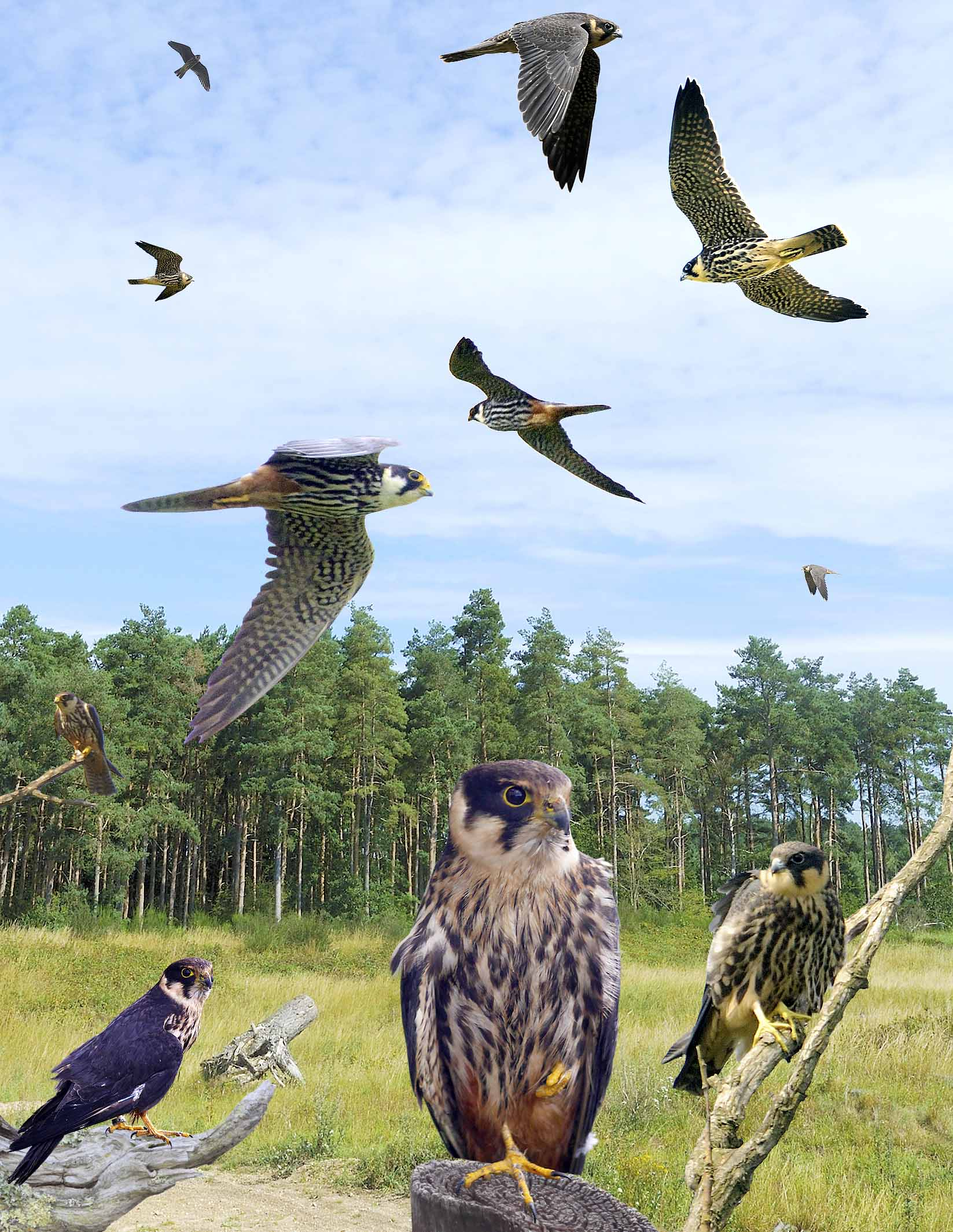 Hobby from the Crossley ID Guide Britain and Ireland